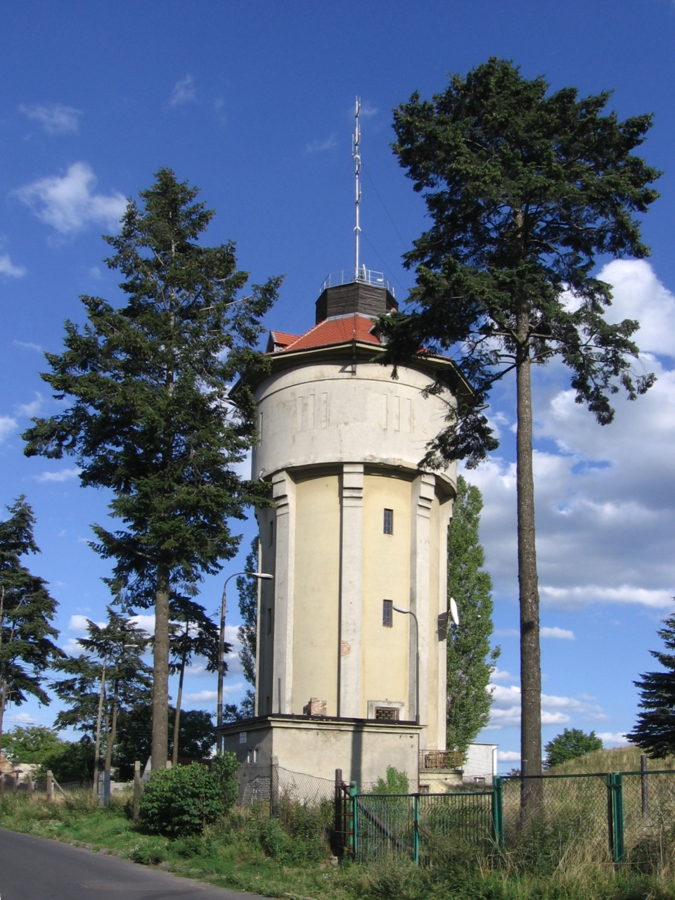 Water tower, built 1927, Kordiana street, Zielona Góra, Poland